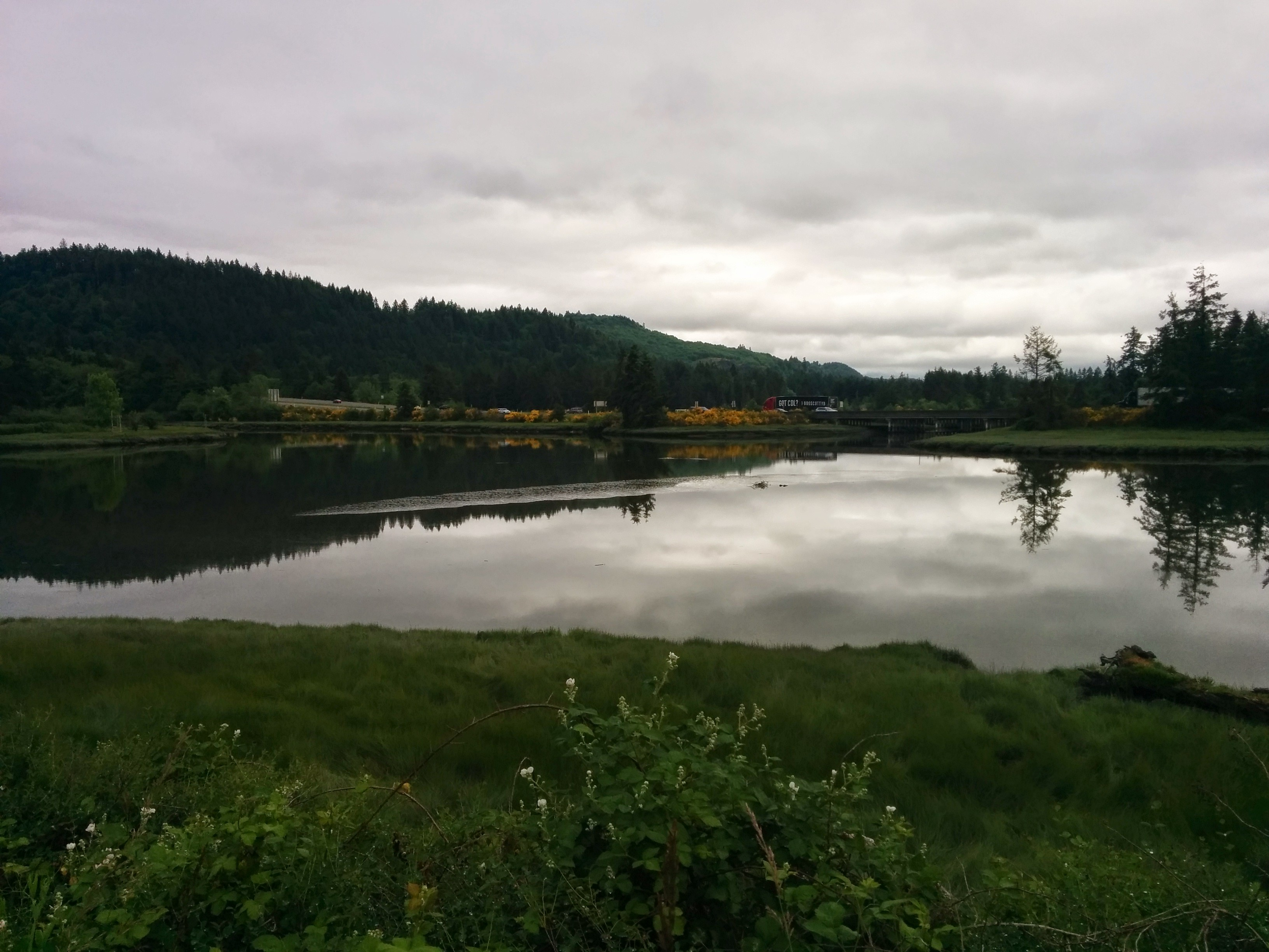 Mud Bay near high tide. Looking south from Mud Bay Road (not seen) towards US Highway 101 and part of the Black Hills. Blackberry vines and white spring blossoms seen in foreground, and yellow Scotch Broom blossoms along Highway 101.